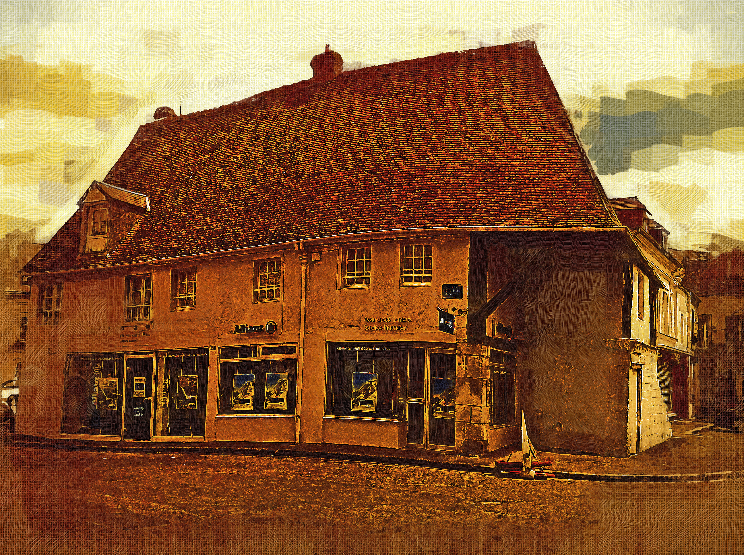 ecouche market